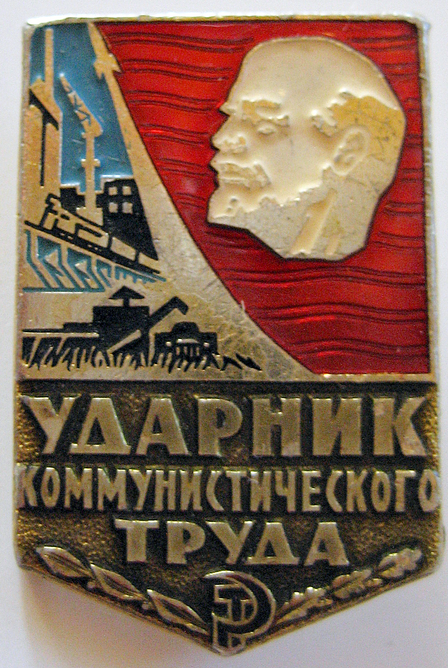 Udarniki